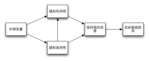 Technology Acceptance Model, Fred D Davis. User acceptance of information technology: system characteristics, user perceptions, and behavioral impacts. International Journal of Man-Machine Studies, 1993, 38 (3) : 475-487.